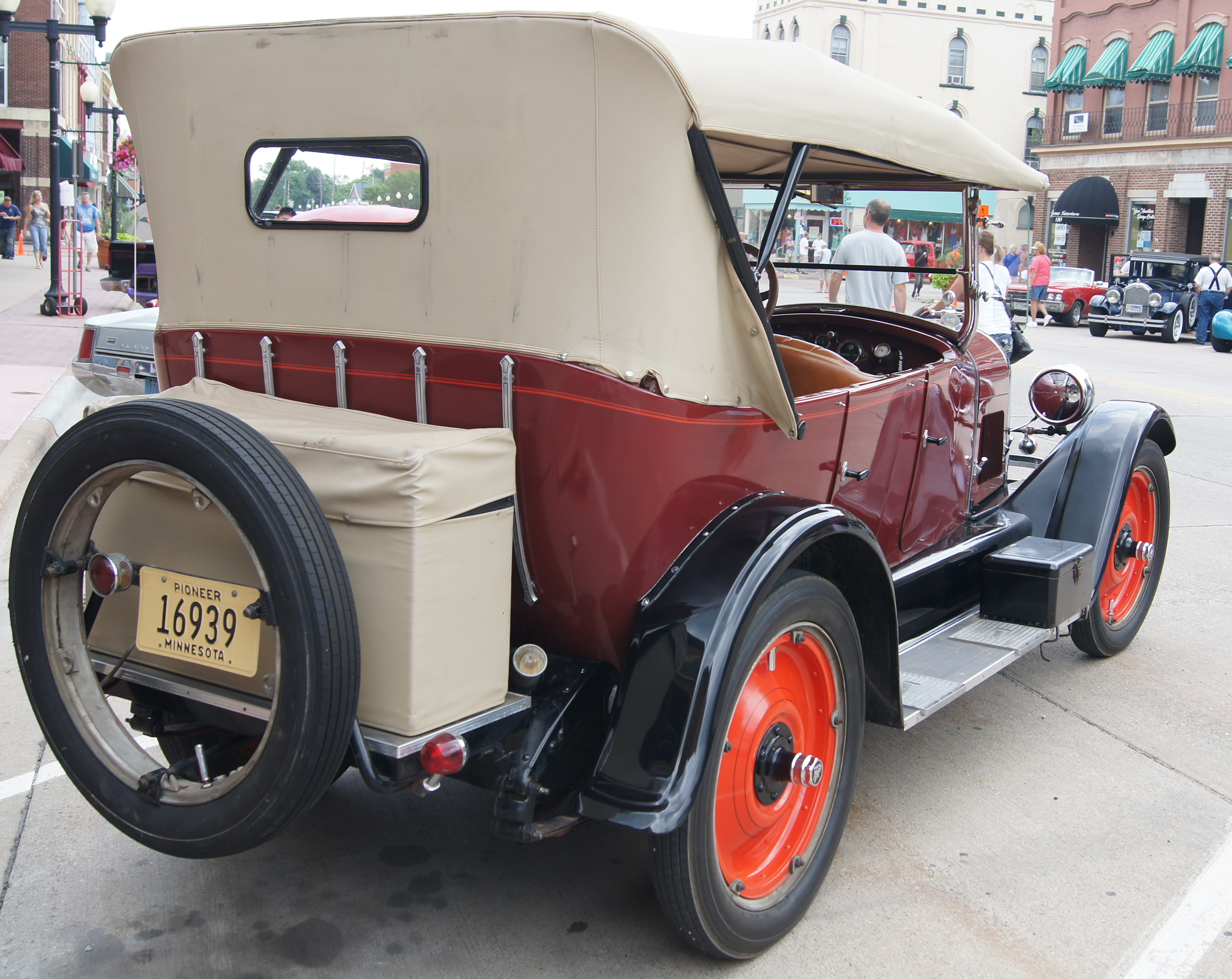 1923 Durant A-22 touring car 9th Annual Saturday Night Cruise-In, June 28, 2014, Hastings, Minnesota